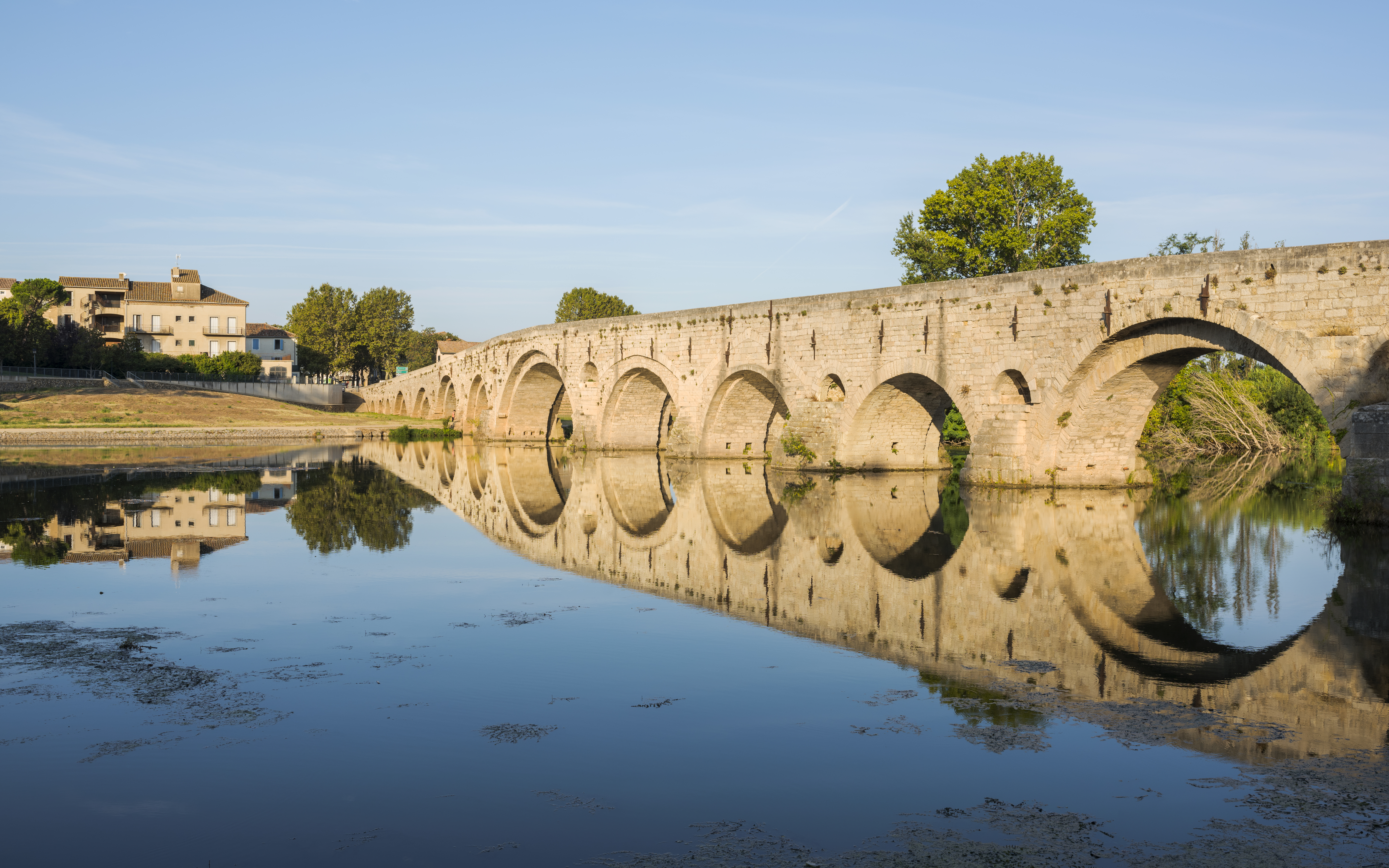 Pont Vieux de Béziers mirrored in the Orb River. Béziers, Hérault, France .